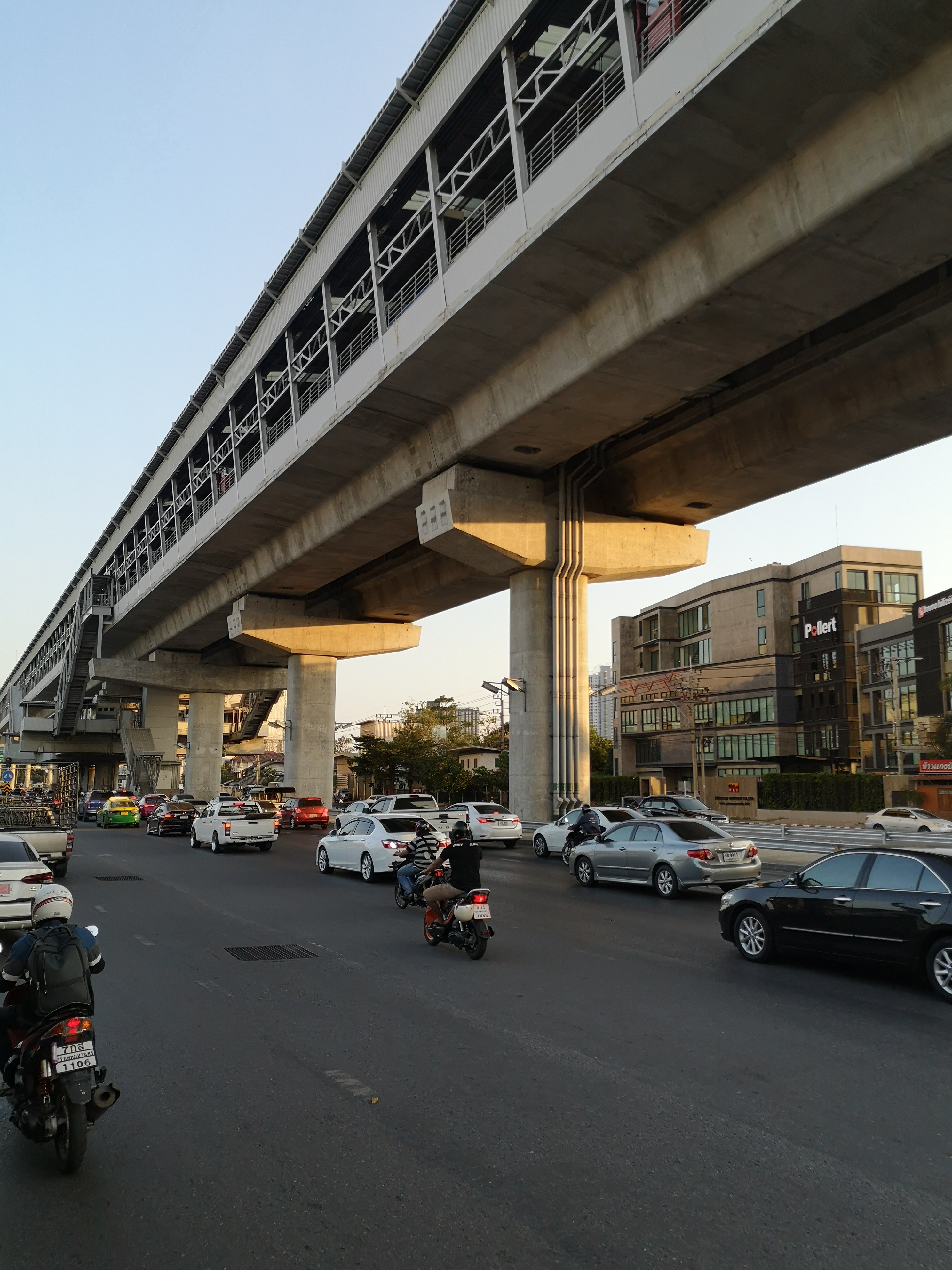 Thanon Ratchaphruek (Bang Wa Station)